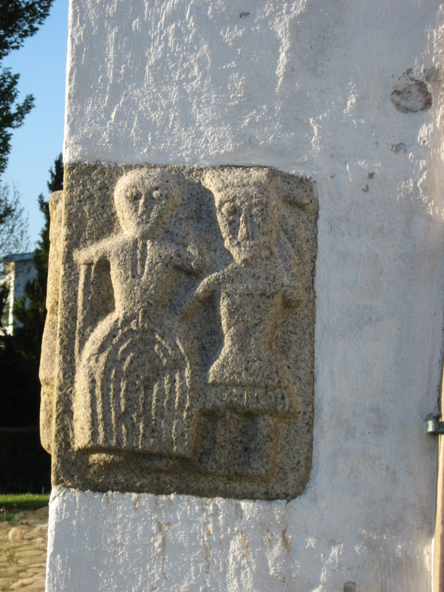 Hasle Kirke in Hasle, Århus, Denmark. A romanesque relief stone on the south-west corner of the tower. Viewed from south.